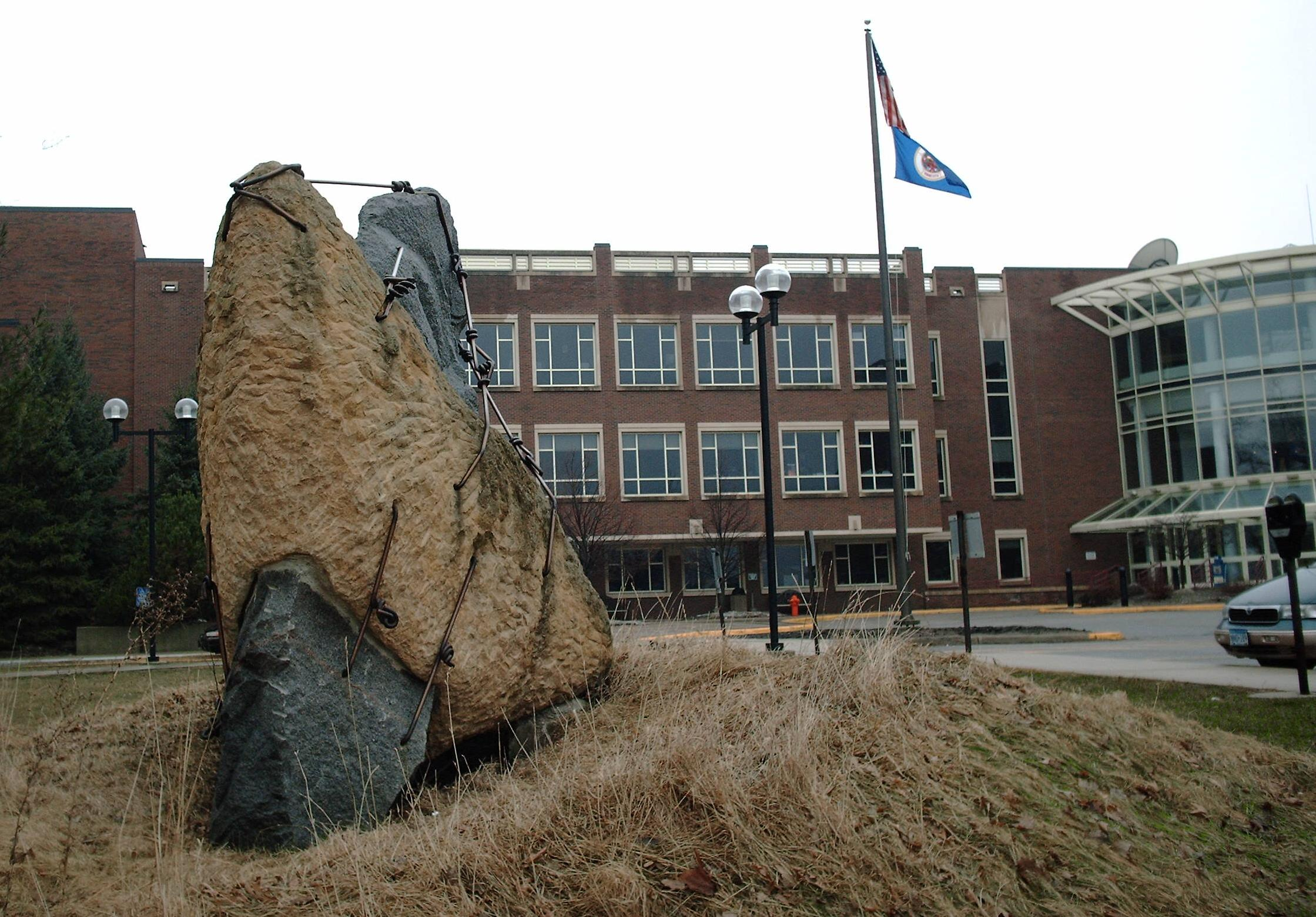 Photo I took 2006-02-28 of the University Center Rochester Campus in Rochester, Minnesota. CC & GFDL.